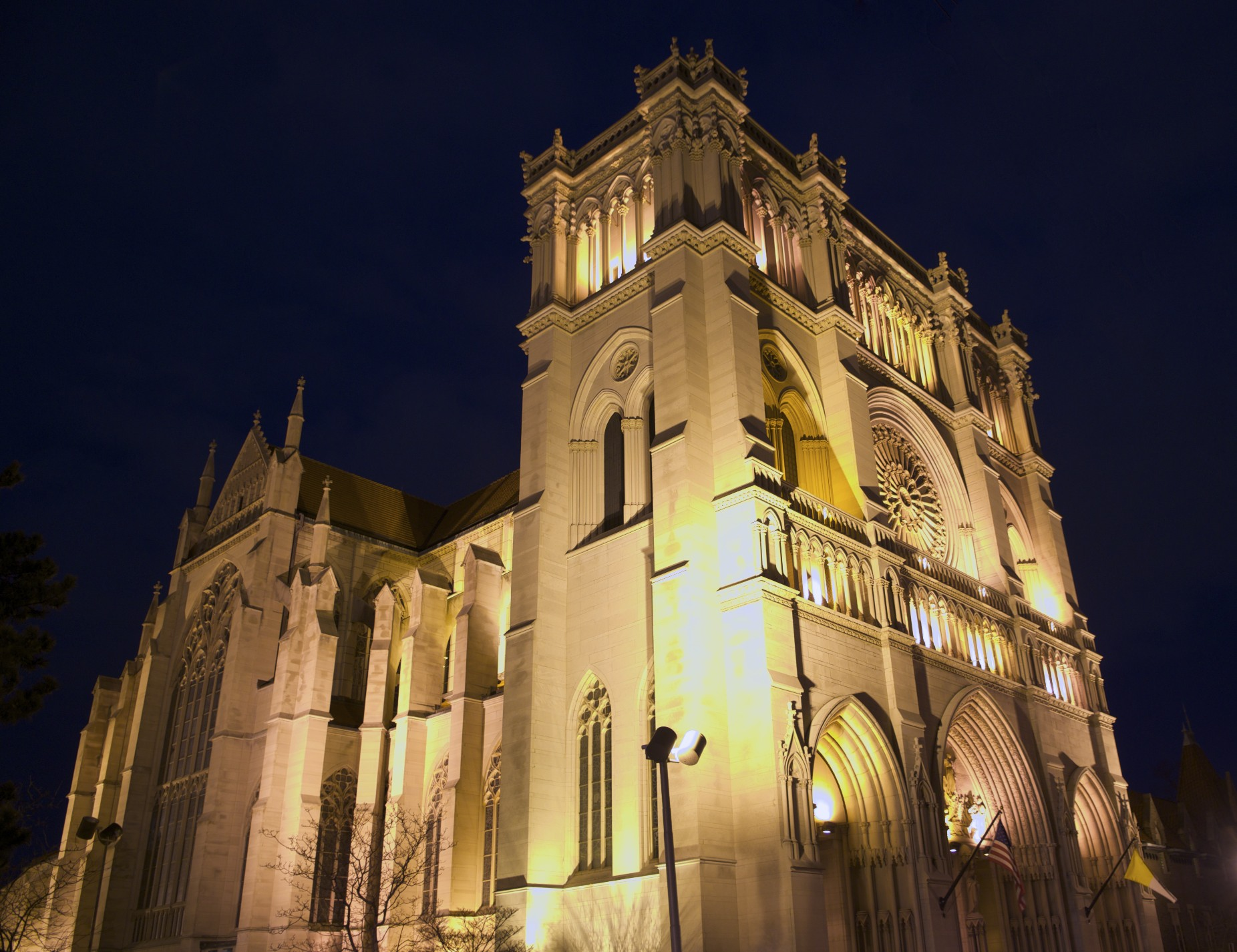 View facing Southeast- Here you see the North Transept and the West Facade.